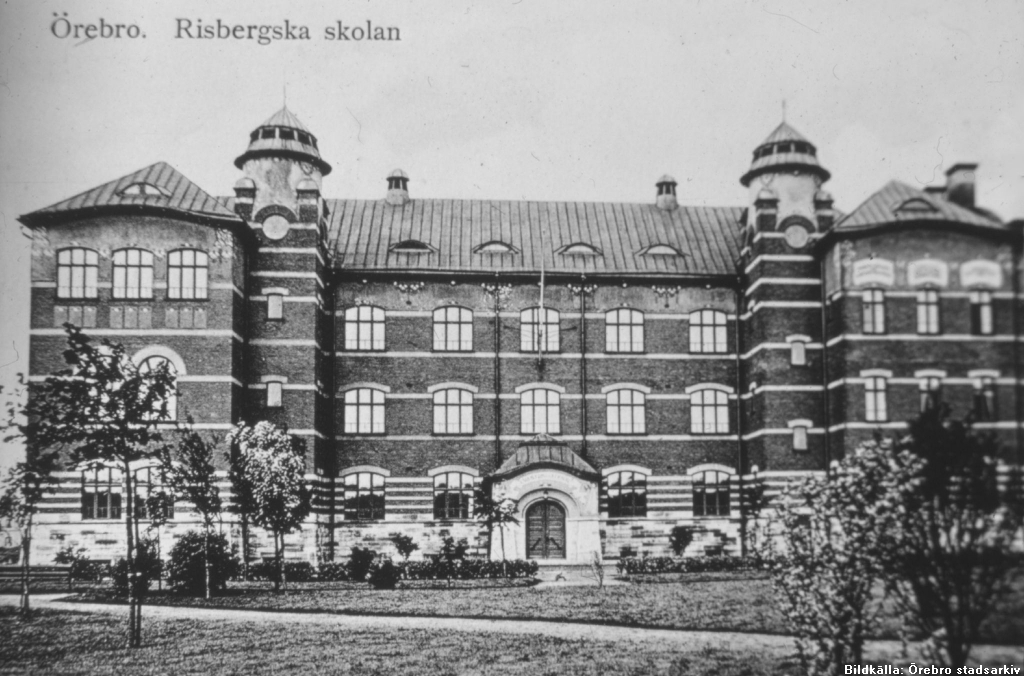 Risbergska school, Örebro, Sweden